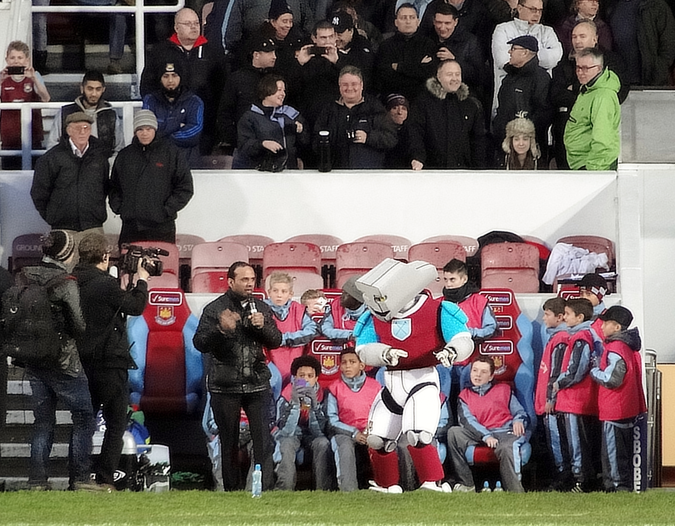 "Singer" One Pound Fish Man performing at half-time in the match between West Ham United and Everton at The Boleyn Ground, London, December 2012